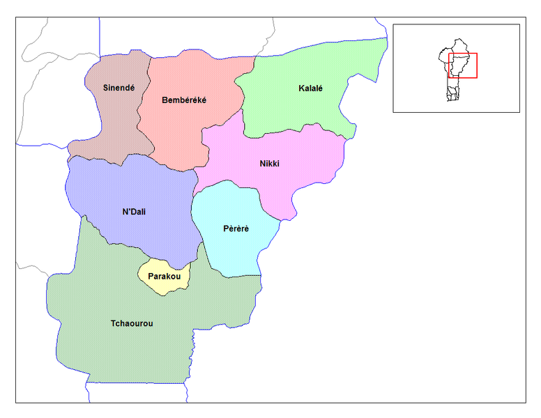 Map of the communes of the department of Borgou, Benin. Created by Rarelibra for public domain use. Created using MapInfo Professional v7.5 and various mapping resources.